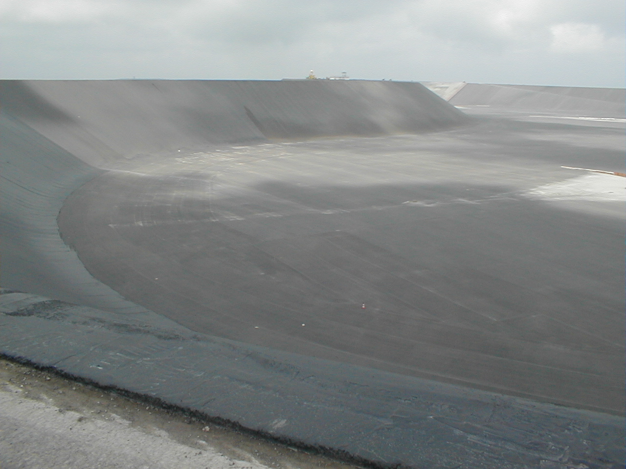 Upper reservoir of the hydroelectric power plant Goldisthal in Thuringia